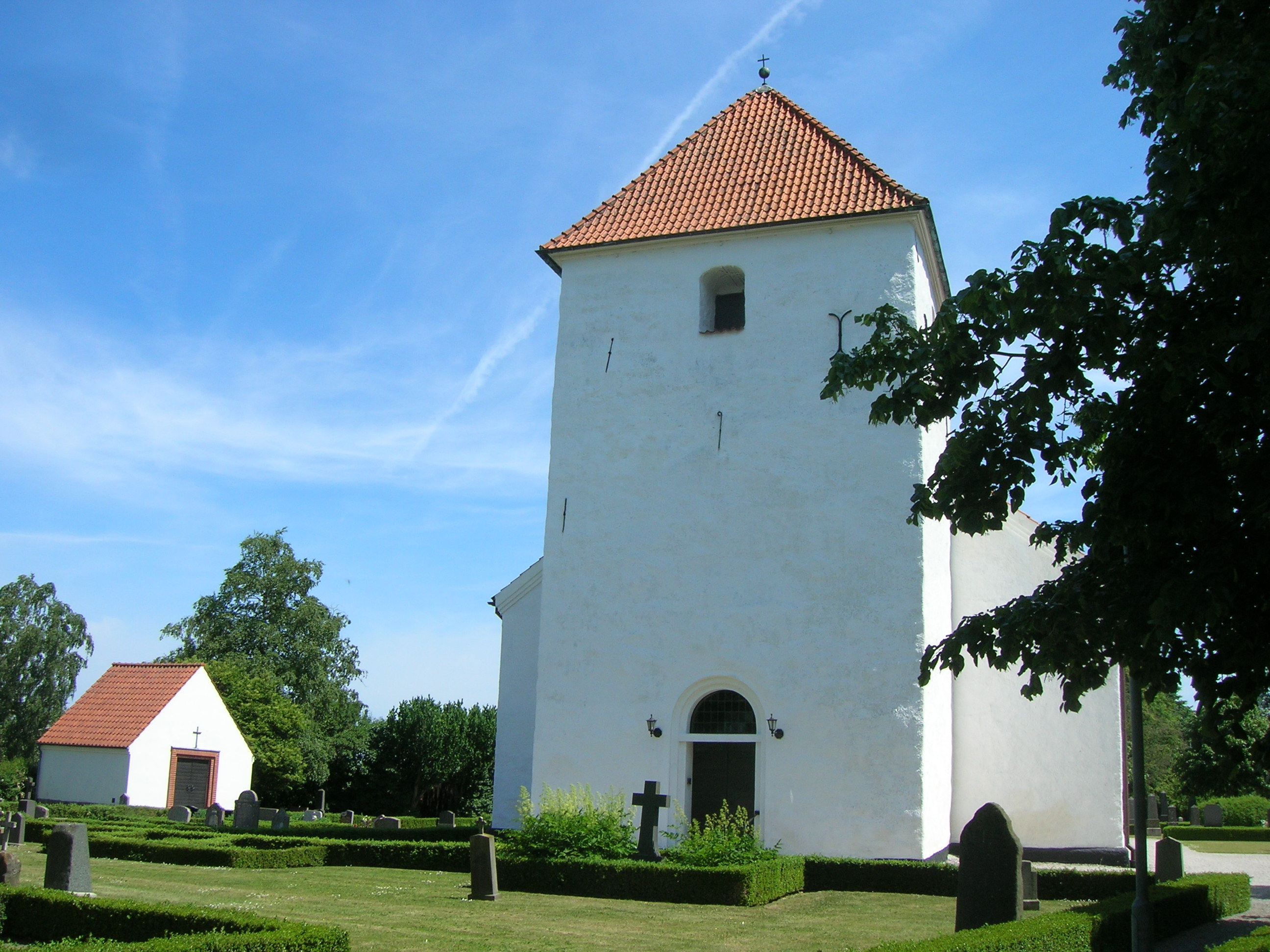 Vanstad Church, Sjöbo Municipality, Scania, Diocese of Lund, Sweden.